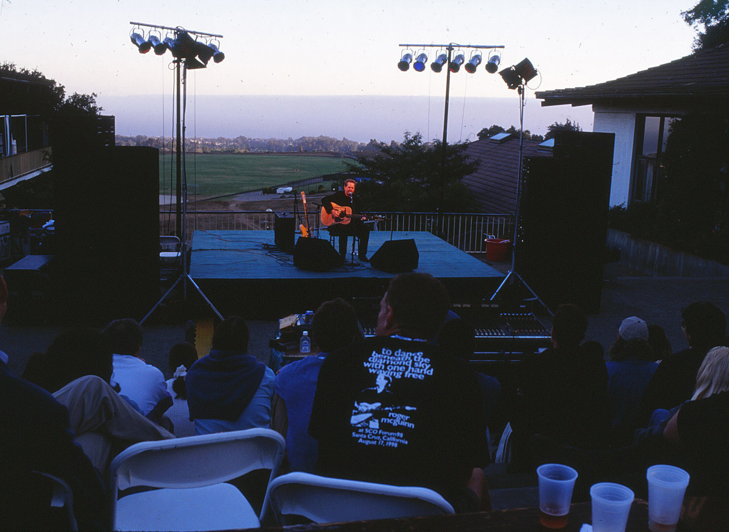 Roger McGuinn in an early evening solo performance on the Cowell College patio, as part of the SCO Forum98 computer conference held by the Santa Cruz Operation on the campus of UC Santa Cruz. East Field can be seen behind him and Monterey Bay in the distance. This was the first of three consecutive years that McGuinn performed at SCO Forum. (A T-shirt made for this occasion, seen in the front center, quotes a couple of lines from Bob Dylan's "Mr. Tambourine Man", which as rearranged and recorded by McGuinn's group, The Byrds, was a number one hit in 1965. As it happens the lines are for a verse which was not included in The Byrds' version and which McGuinn often does not include in his.)